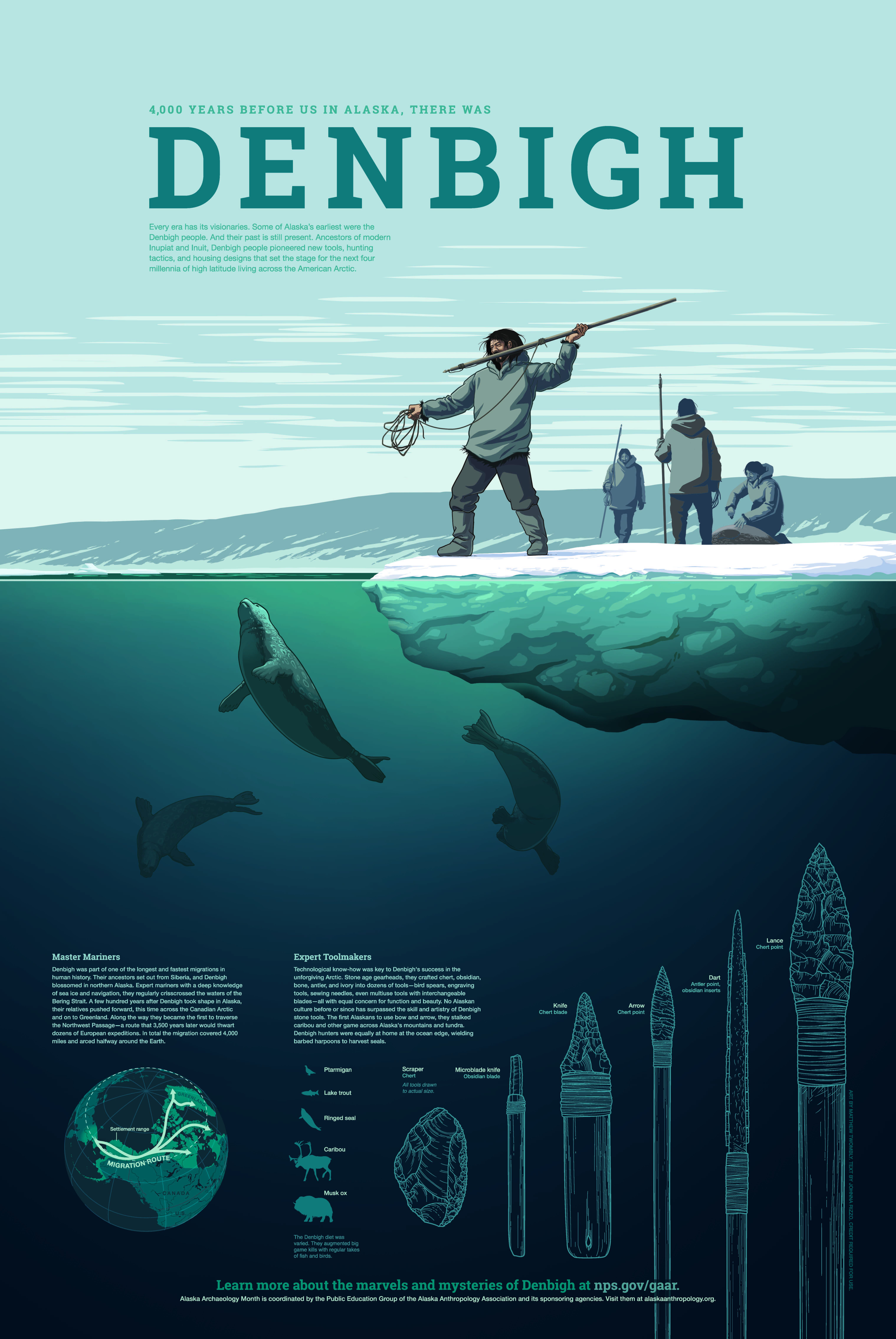 The Denbigh Flint Complex in Alaska Archaeology Month 2014 poster